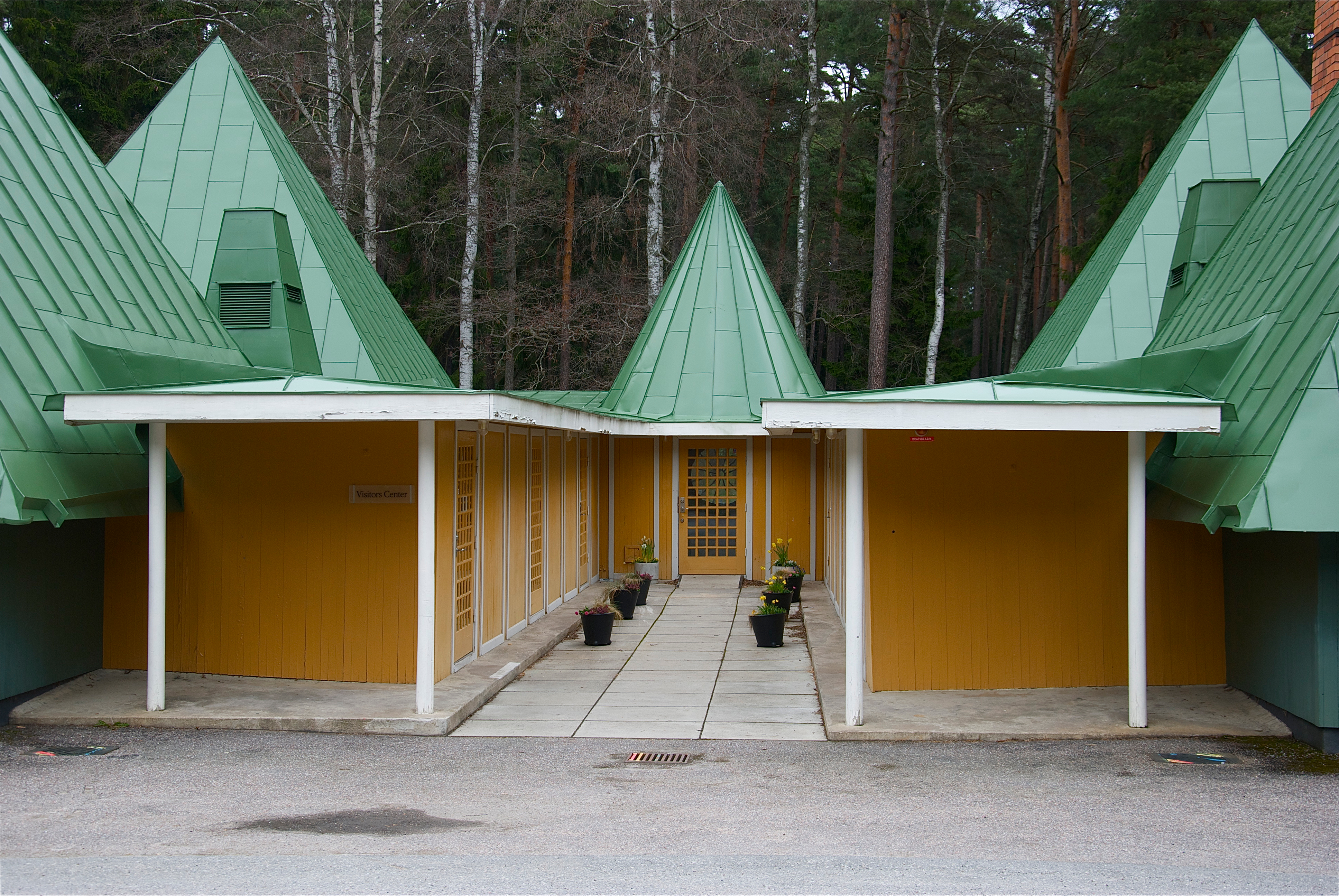 The Visitors Center (The Tallum Pavilion) at Skogskyrkogården. The building was designed by Gunnar Asplund in 1923 as a staff and service building. The building was renovated in 1998 and used as a visitor and service centre. In 1994, Skogskyrkogården (official name in